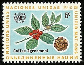 United Nations postage stamp